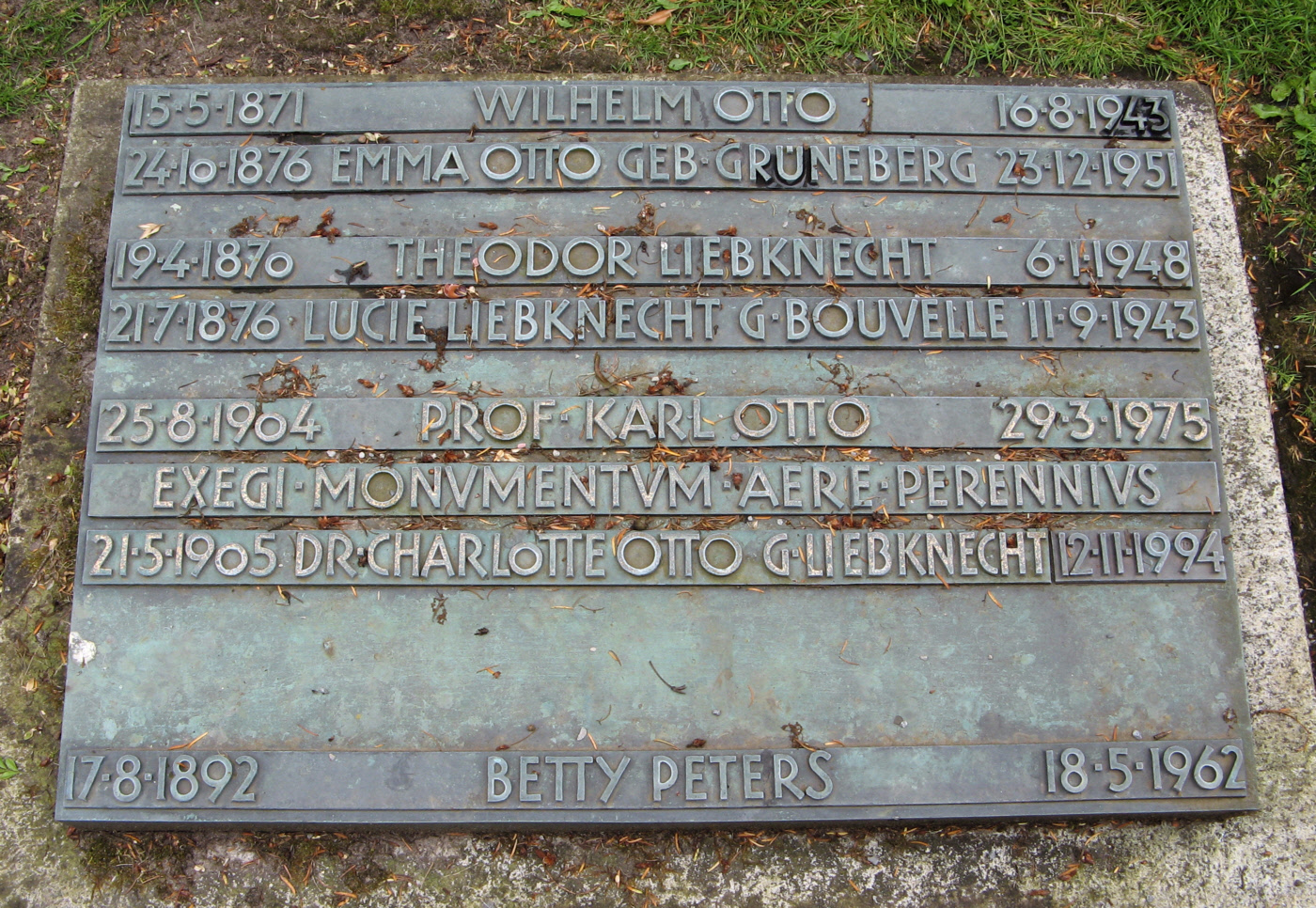 Detailed image of grave of Wilhelm and Emma Otto, Theodor and Lucie Liebknecht, Karl and Charlotte Otto, and Betty Peters at Section 17M, plot 3-4, Stadtfriedhof Engesohde, Hannover, Germany.